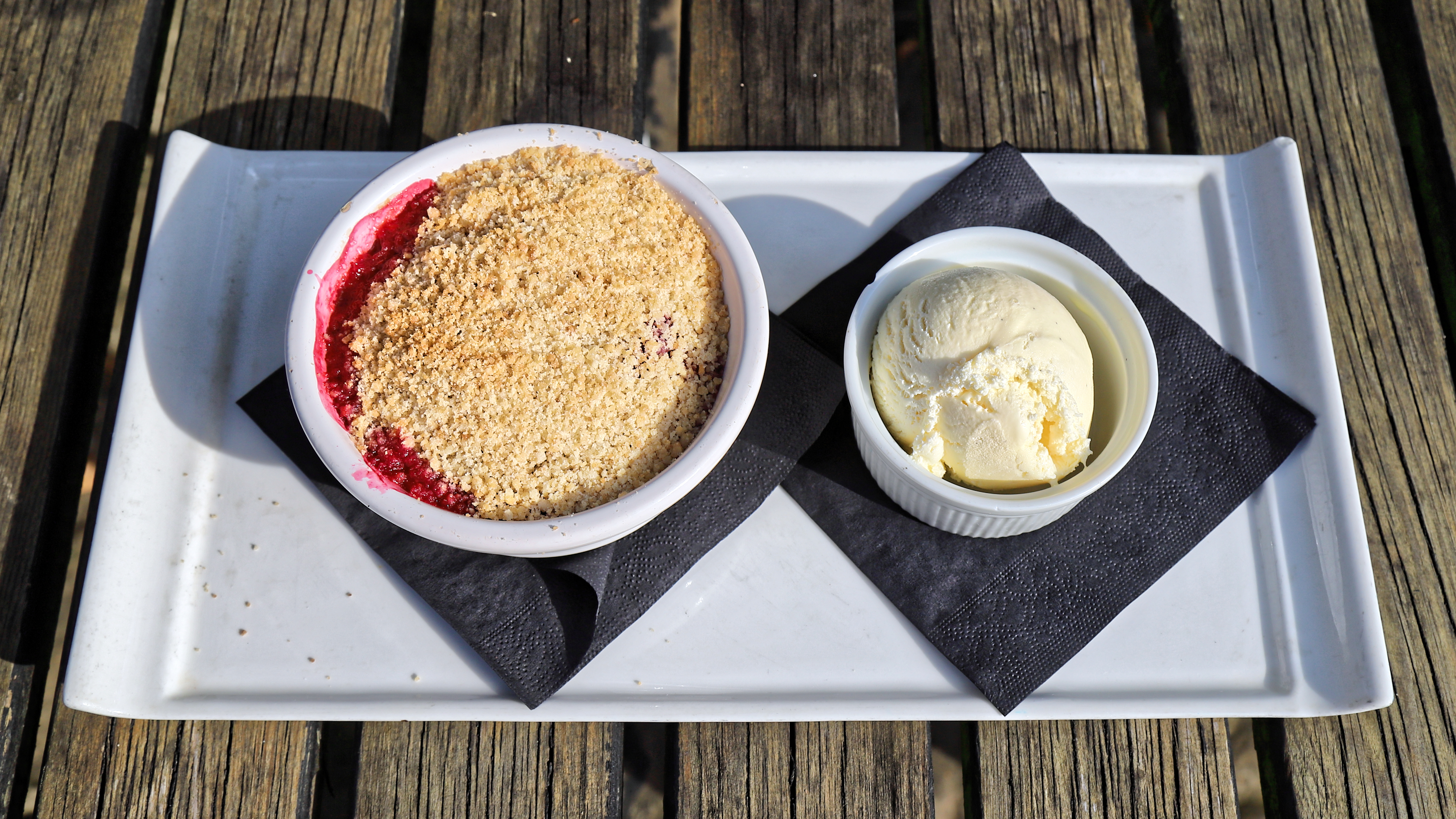 A raspberry and apple crumble and ice cream at the Black Horse Inn on Nuthurst Street in Nuthurst, West Sussex, England.Camera: Canon EOS 6D Mark II with Canon EF 24-105mm F4L IS USM lens.Software: File lens-corrected, optimized, perhaps cropped, with DxO OpticsPro 11 Elite, and likely further optimized with Adobe Photoshop CS2.